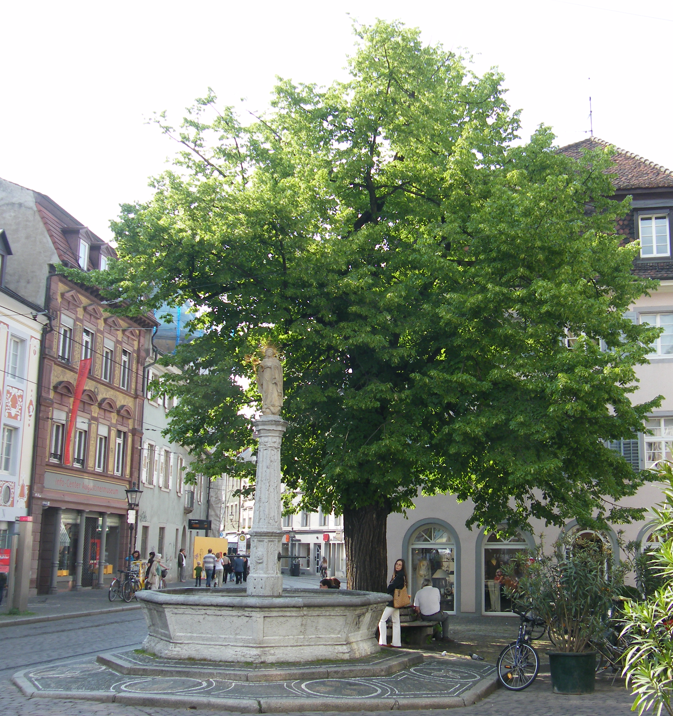 The Tilia at "Oberlinden" in Freiburg (Germany), View from South